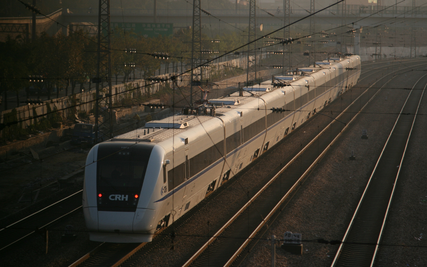 China Railways CRH1 at Shipai Station